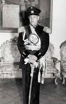 Gral. Gustavo Rojas Pinilla, President of the Republic of Colombia (1953 -1957)